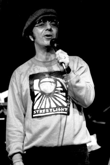 Dion DiMucci performing onstage in New York